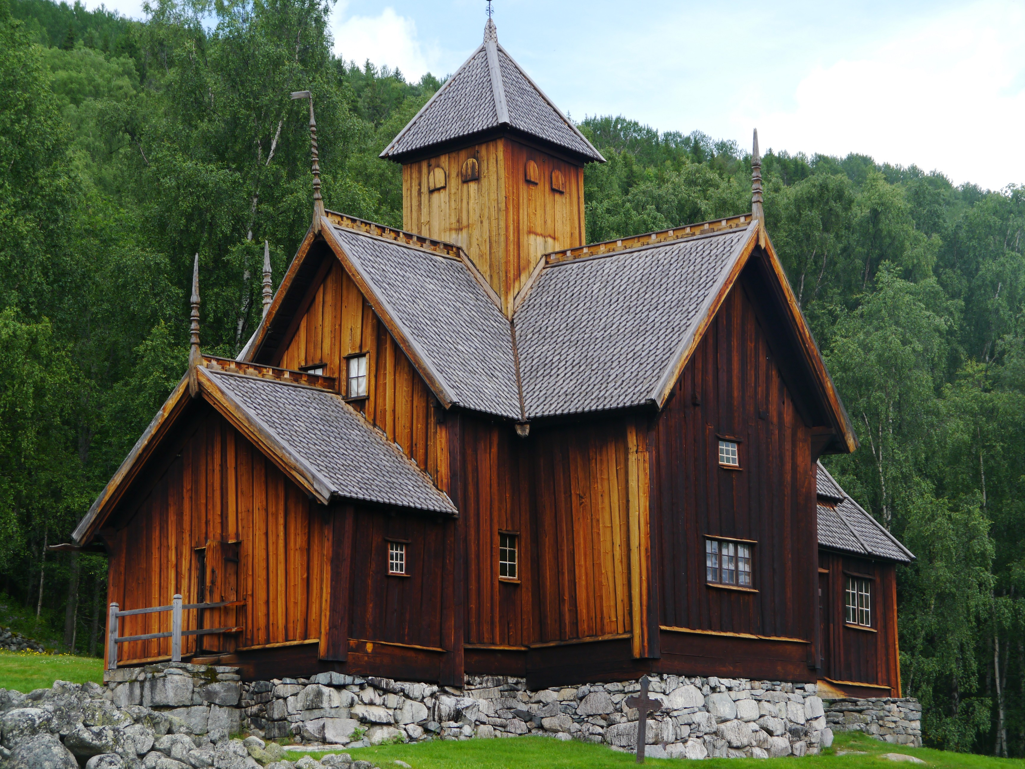 Uvdal Stave Church, Nore og Uvdal, Buskerud county, Southern Norway